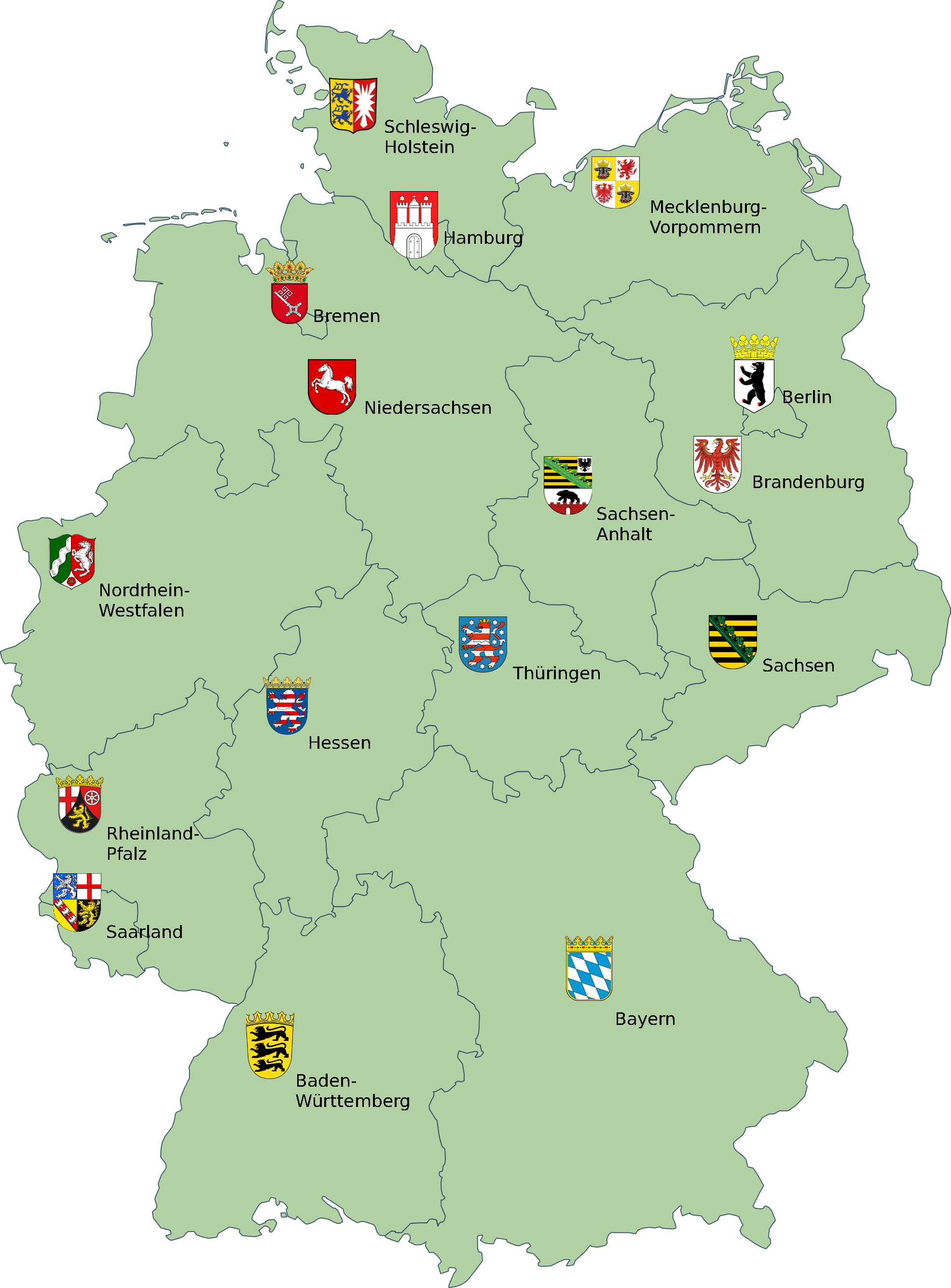 Map of the Federal Republic of Germany showing the borders and coats of arms of the federal states.